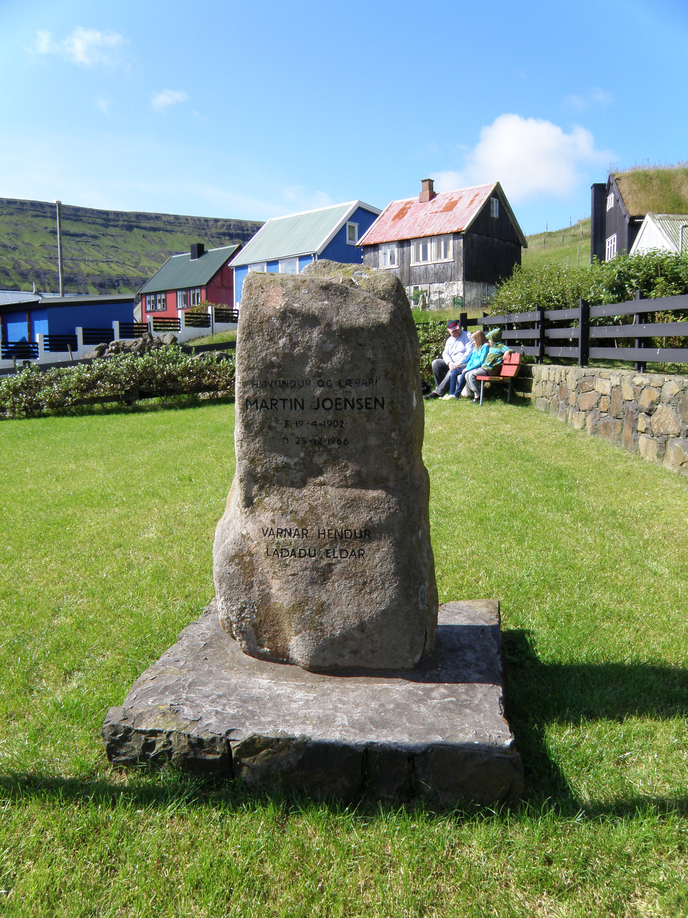 Martin Joensen was a writer and a teacher from the village Sandvík in Suðuroy, Faroe Islands. The photo shows a memorial which was raised in his hometown Sandvík in memory of him. The text on the stone (in Faroese): "Høvundur og lærari. Martin Joensen. F. 19-4-1902. D. 25-12-1966. Varnar hendur, Laðaðu eldar". Føroyskt: Minnisvarði í Sandvík til minnis um rithøvundan Martin Joensen, sum var føddur og uppvaksin í Sandvík. Hann var føddur í 1902 og doyði í 1966. Martin Joensen var útbúgvin lærari og arbeiddi sum lærari meginpartin av sínum vaksna lívi. Hann var tó eisini til skips sum ungur, áðrenn hann fór at lesa til lærara. Teksturin á minnissteininum: "Høvundur og lærari. Martin Joensen. F. 19-4-1902. D. 25-12-1966. Varnar hendur, Laðaðu eldar".